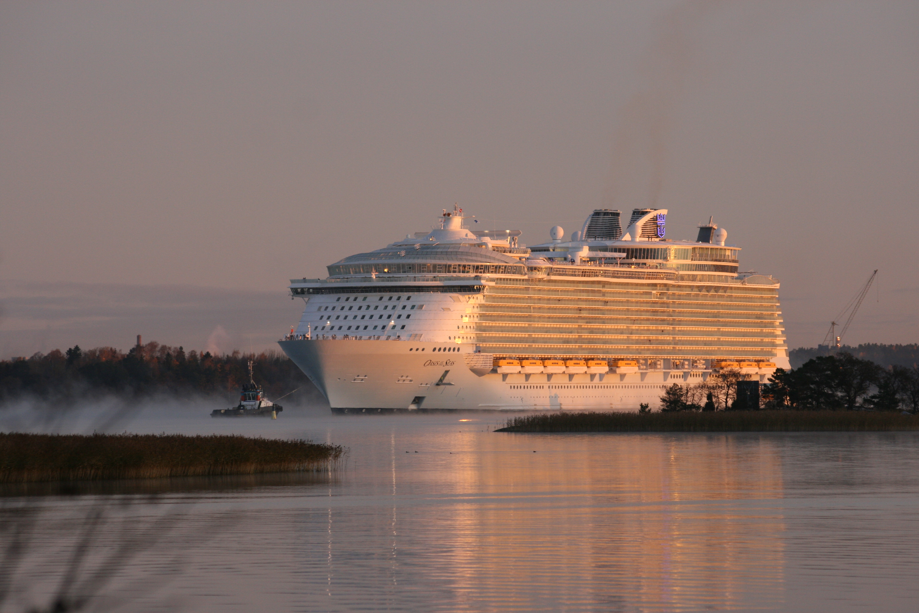 Oasis of the seas leaving STX shipyard, Turku, Finland with fog rising from the sea at sunrise. Ship is still near shipyard. Photo is taken from Saaronniemi, Ruissalo. Ирон: Дунейы стырдæр пассажирон нау «Oasis of the Seas» йæ фыццаг балцмæ ацæуы, кæм æй сарæзтой, уыцы Туркуйы верфь STX-æй. Финлянди